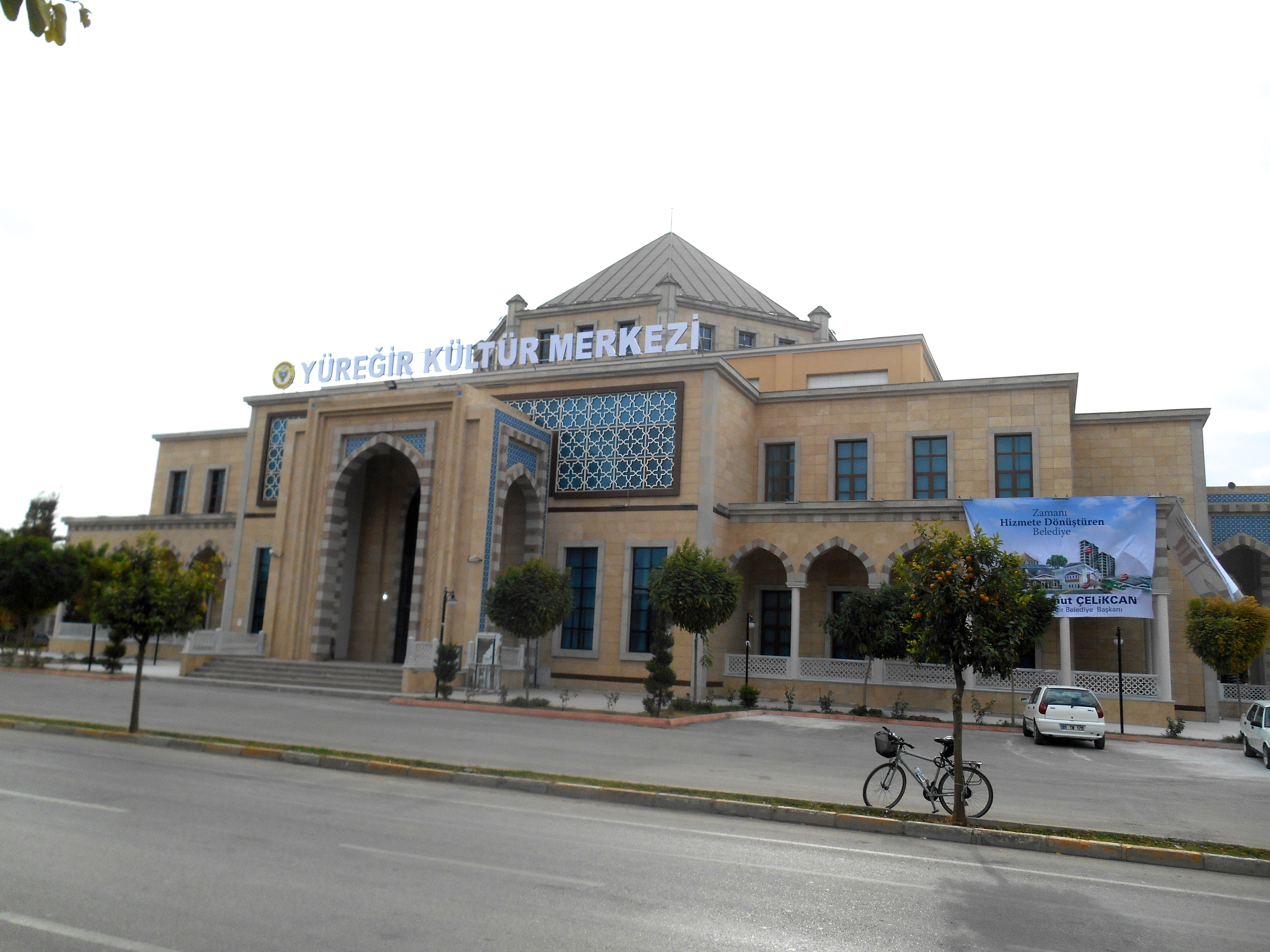 View from front